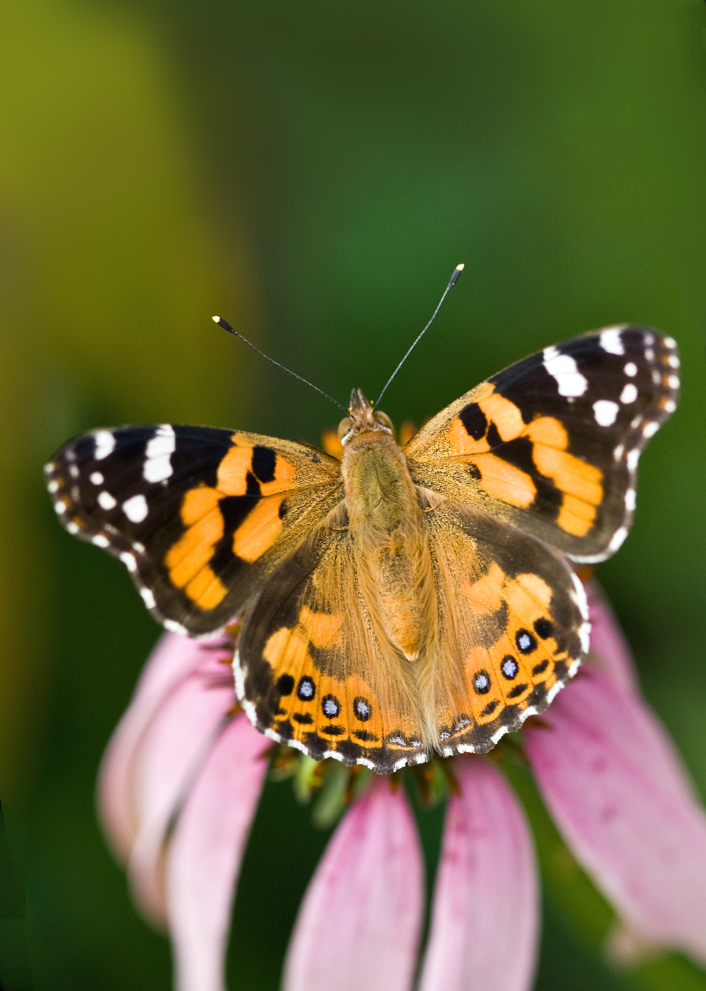 I had a great day in the garden today. Lots of bugs visited and I got a variety of pictures. This was one of my faves. She hung around for a half an hour and visited a variety of flowers. I still have a couple of coneflowers so she visited them as well.